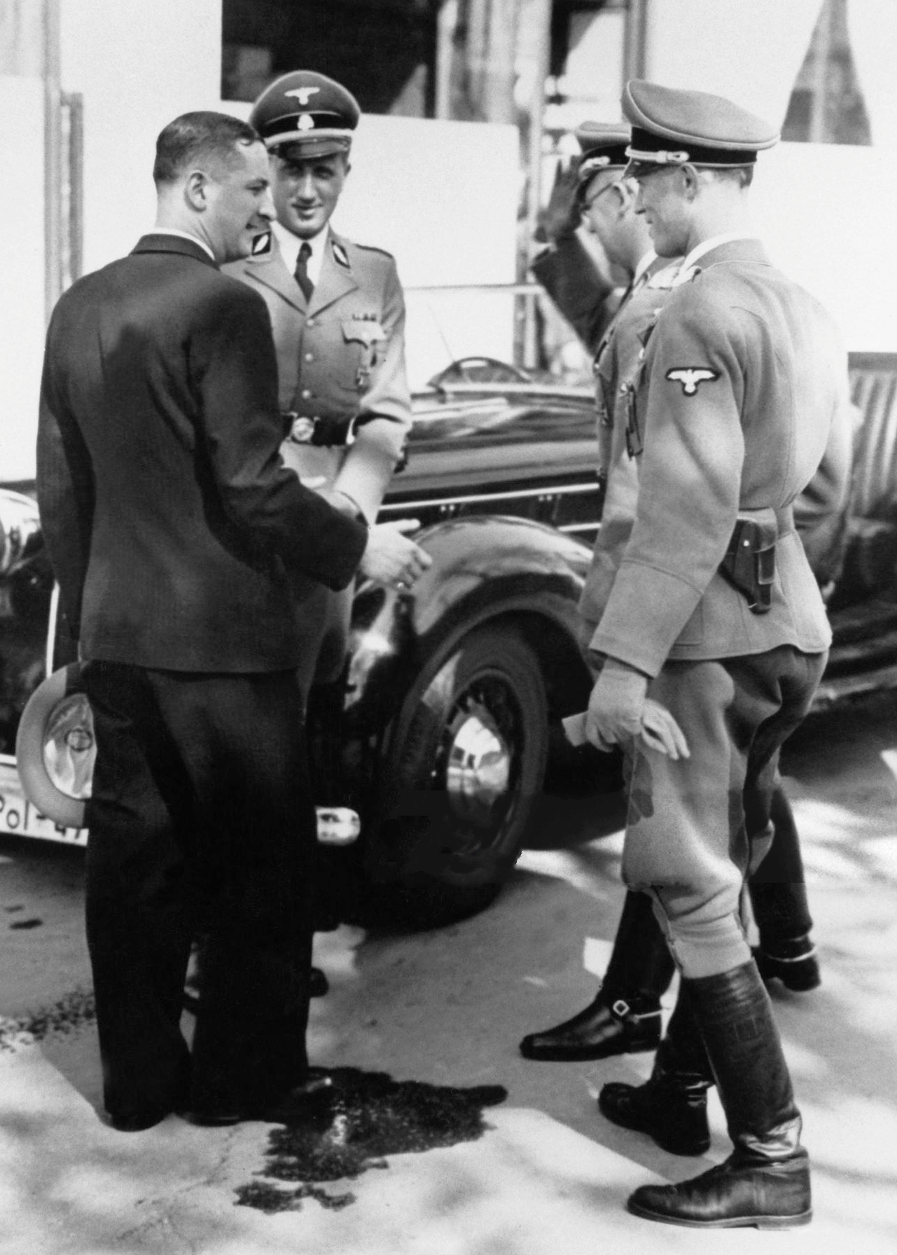 The Secretary General of the Vichy police Rene BOUSQUET (left) speaking with the head of the SS and of the German police in occupied France, General Karl OBERG (hidden), his aide-de-camp Herberg HAGEN (facing camera) and an SS-Standartenfuhrer officer .